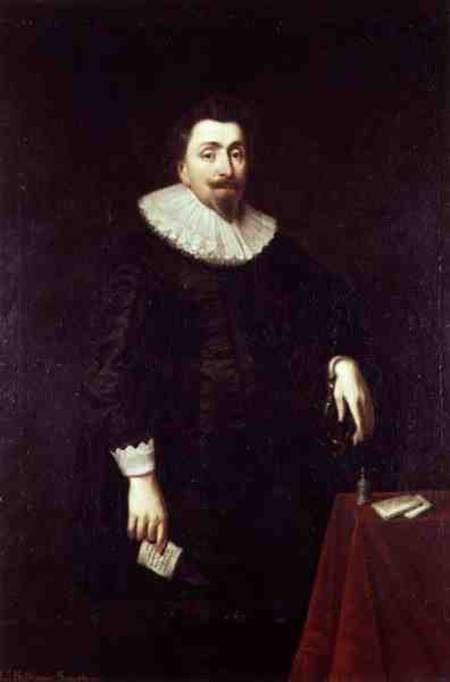 George Calvert (1578/79-1632) First Lord Baltimore MSA SC 3520-2167